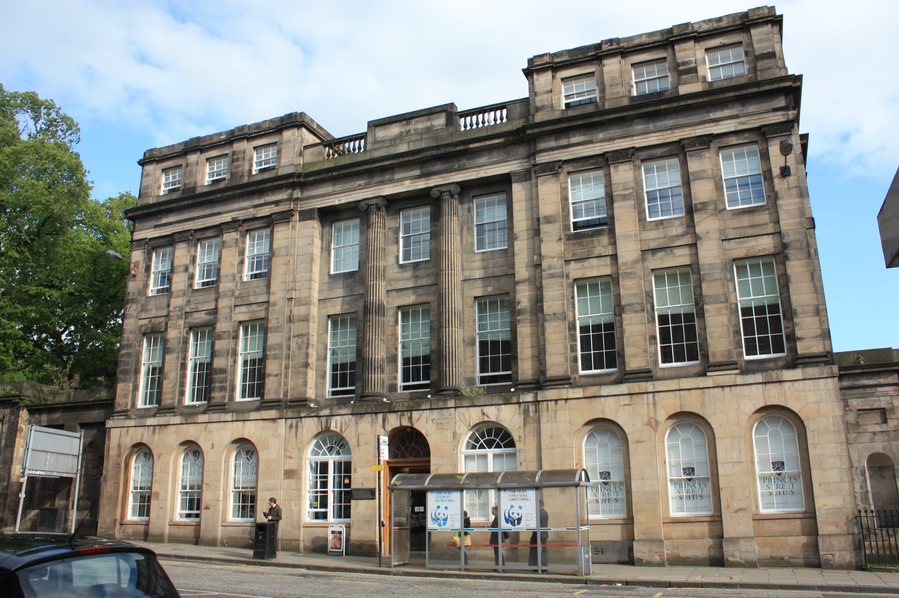 16-20 Waterloo Place, Edinburgh. In 2015 this building was run by Princes Street Suites who rent service apartments.